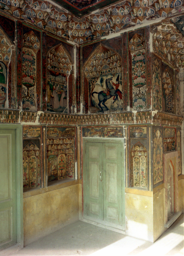 Grand Hall of Dr,Hariri House-Tabriz.